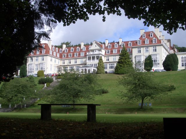 Peebles Hydro. Large hotel in extensive grounds, first opened in 1907.